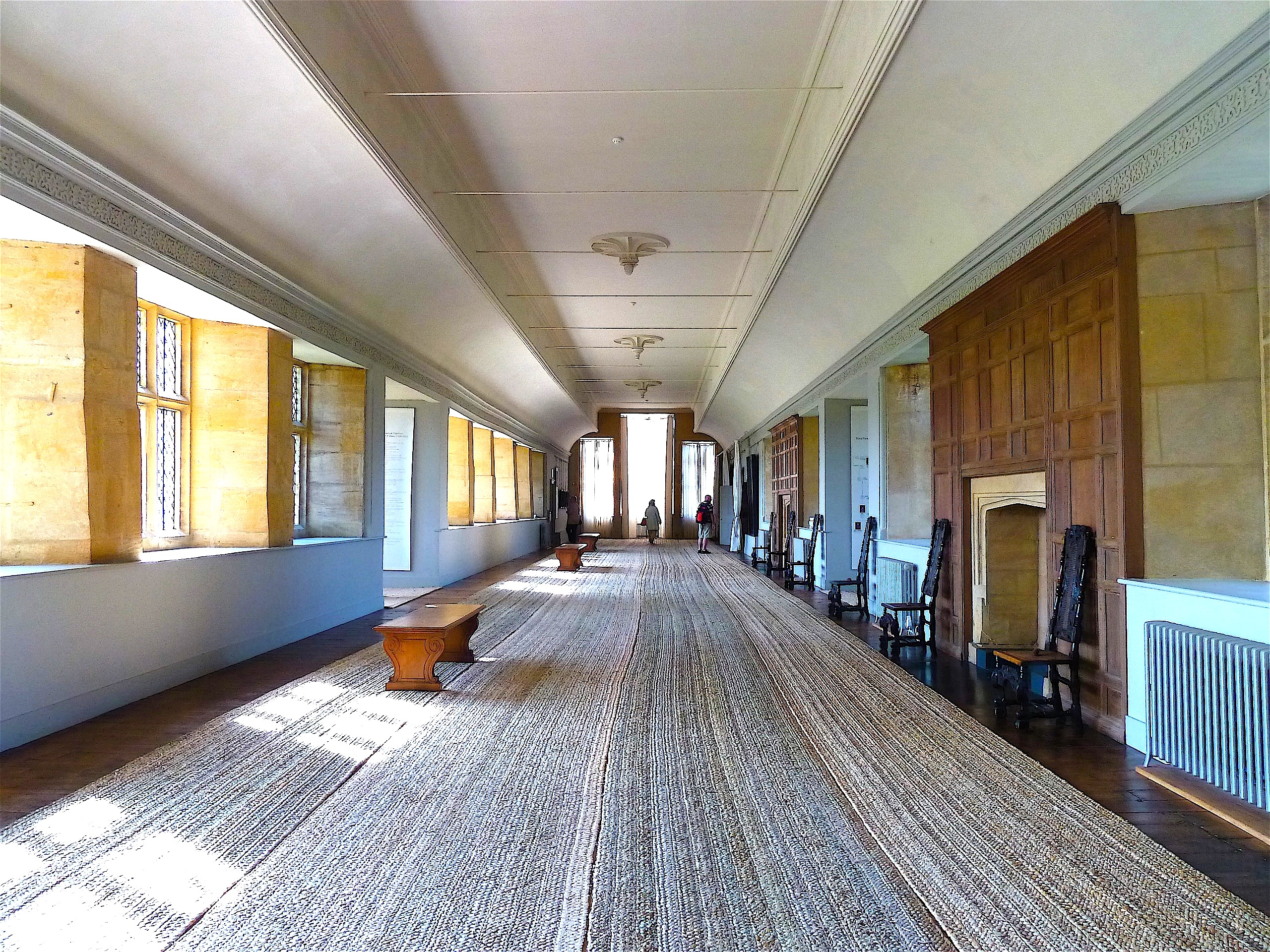 The Famous Long Gallery at Montacute House in Somerset, built in 1598. This is reputed to be the longest 'gallery' of it type in any English house. The many rooms off the gallery are now used by The National Portrait Gallery to show important period works of art